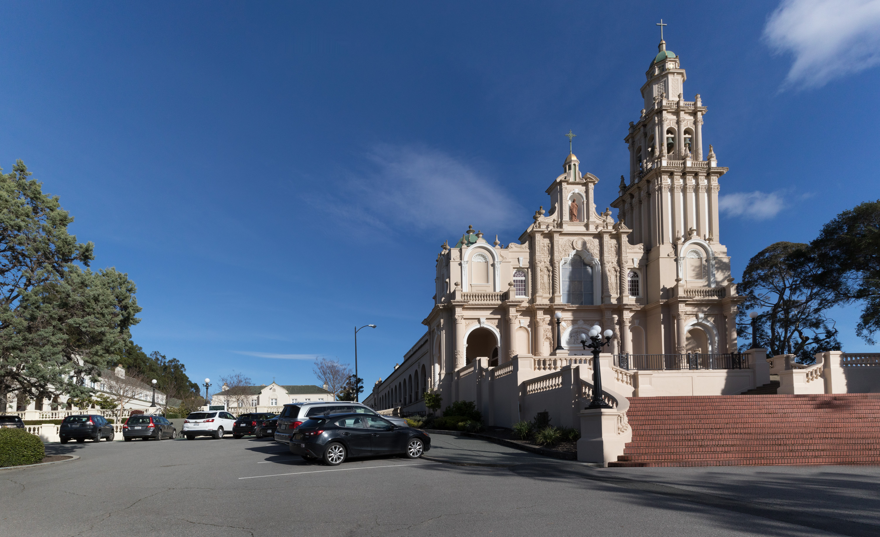 St. Vincent's Church in Marinwood, CA